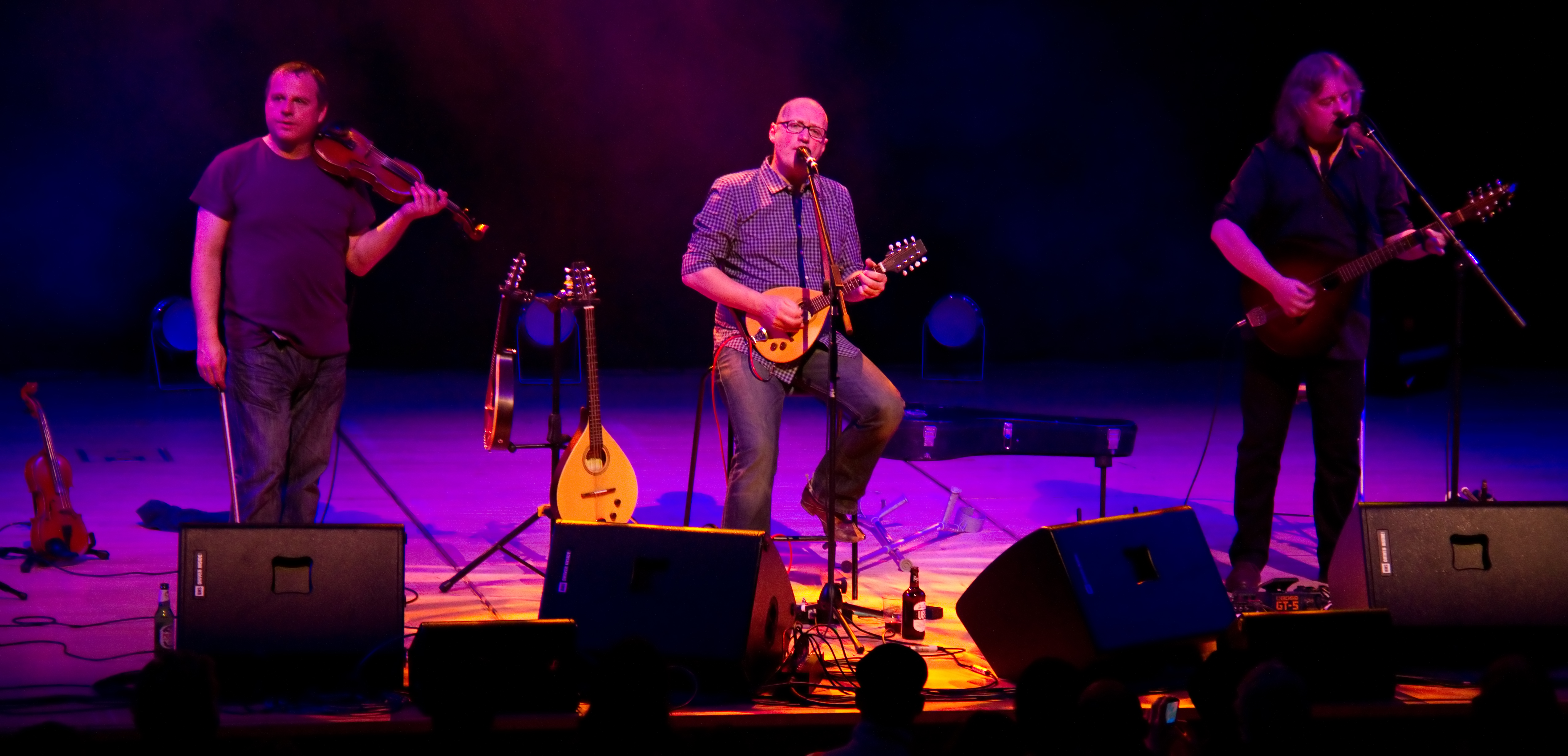 We went to see Ade Edmondson and the Bad Shepherds at Birmingham Town Hall. It was a bit strange listening to the likes of the Sex Pistols, The Clash, The Stranglers, Pink Floyd, Kraftwerk, Motorhead etc played on Lutes, Violins and Pipes